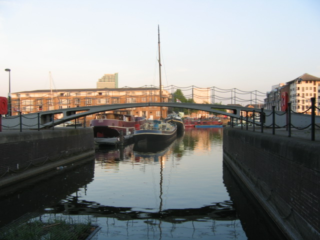 Norway Cut swing bridge. This elegant pedestrian bridge which swings in two halves came from elsewhere and has been re-erected over a waterway which linked Greenland Dock (behind) to another dock (now lost).